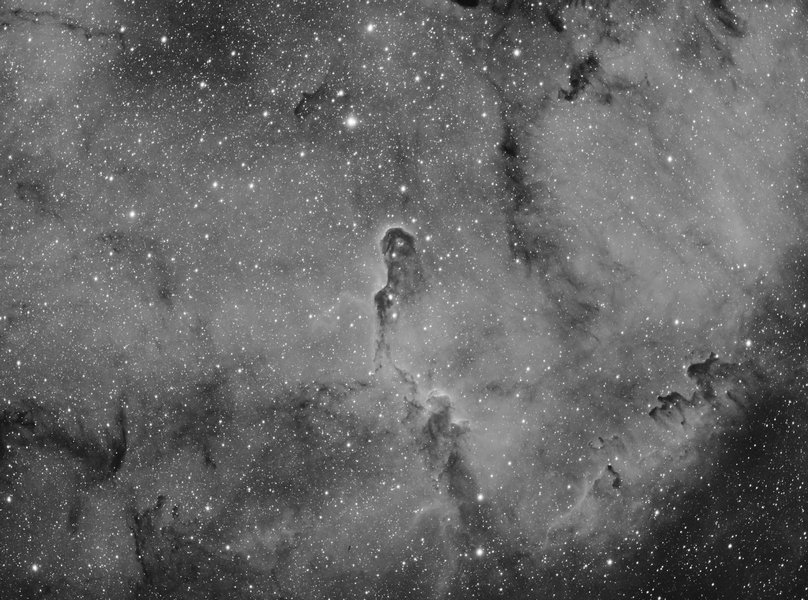 Elephant Trunk Nebula. Image of the H alpha emission from the Hydrogen gas contained in the nebula. 3 hour capture.